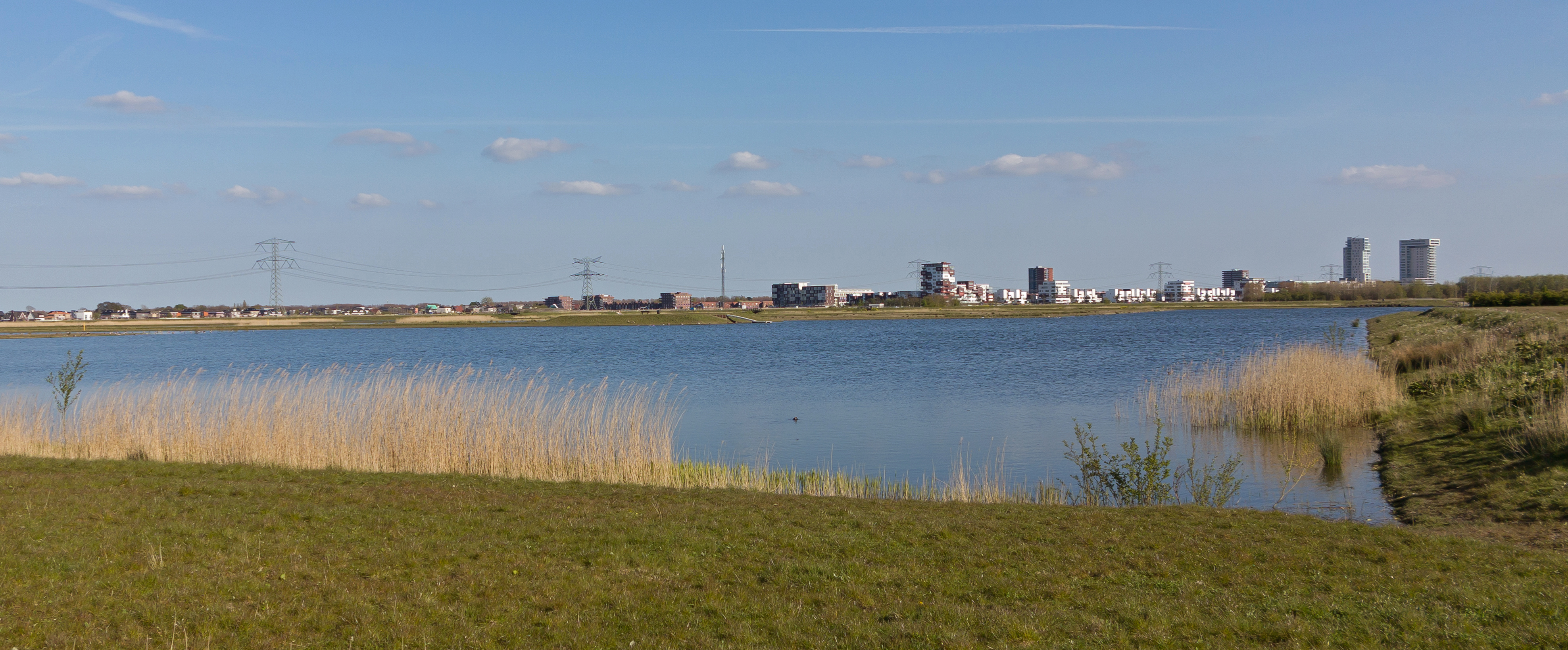 Rotterdam-Zevenkamp, quarter skyline with de Zevenhuizerplas in the front